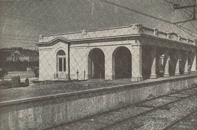 Estoril Railway Station, in the Cascais Railway, in Portugal. This photograph was published on the Gazeta dos Caminhos de Ferro magazine No. 1285, of the 1st July 1941, and scanned by the Hemeroteca Municipal de Lisboa.